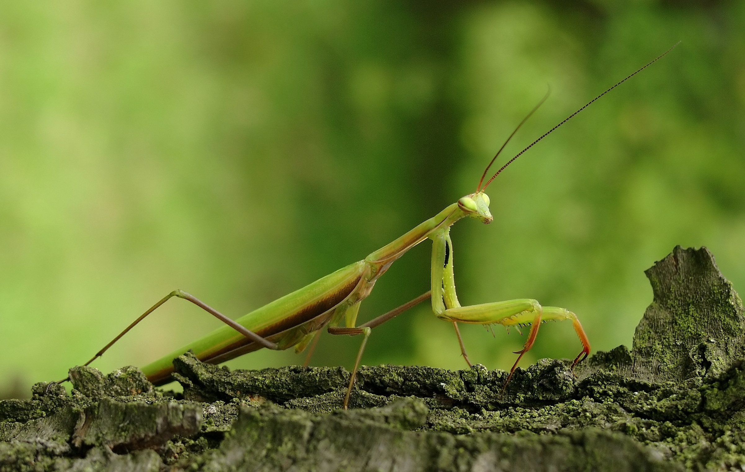 Praying mantis